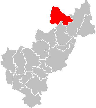 Map showing the Municipality of Arroyo Seco, State of Queretaro, Mexico